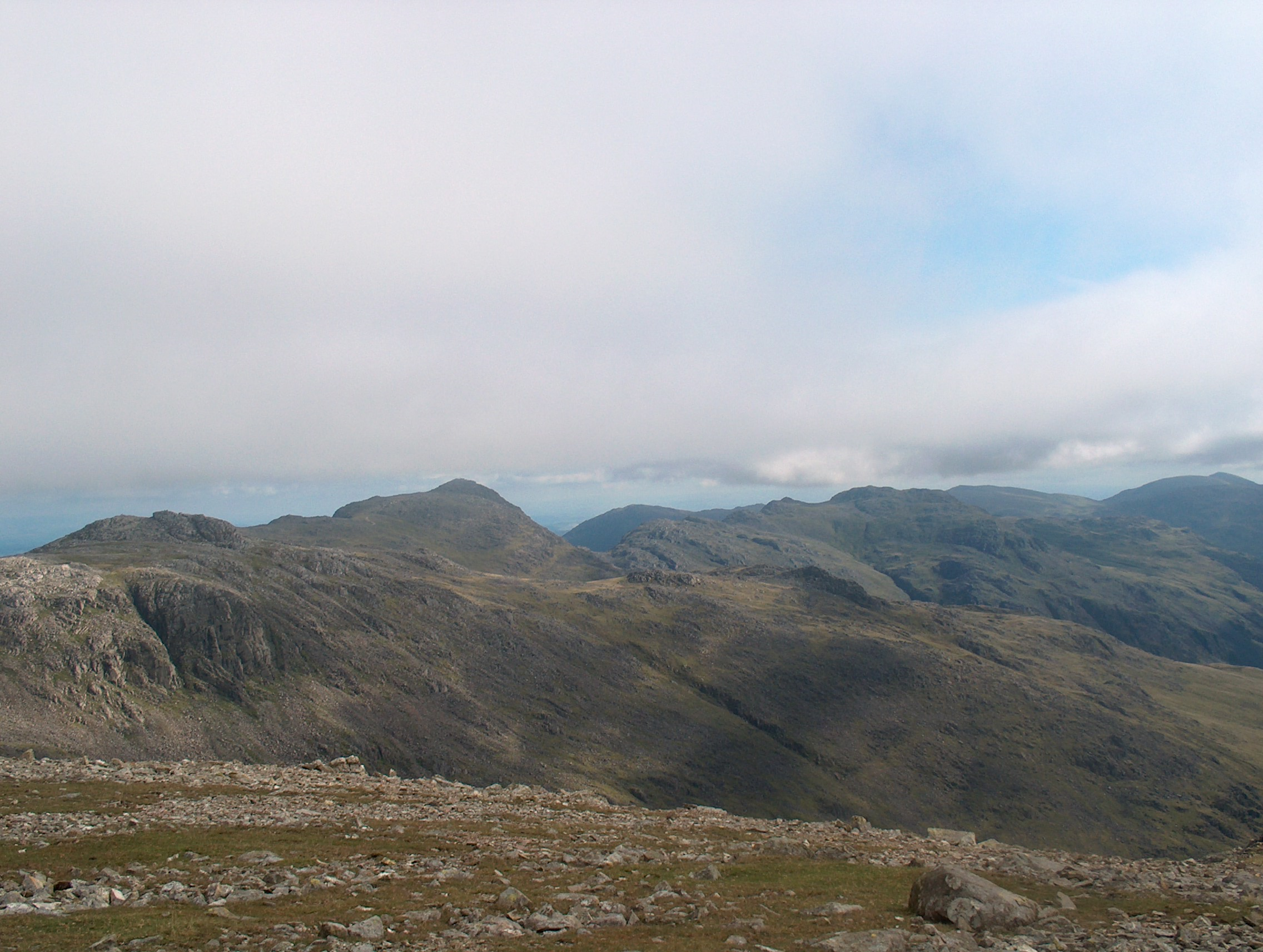 On the Ill Crag plateau Looking east towards Esk Pike.